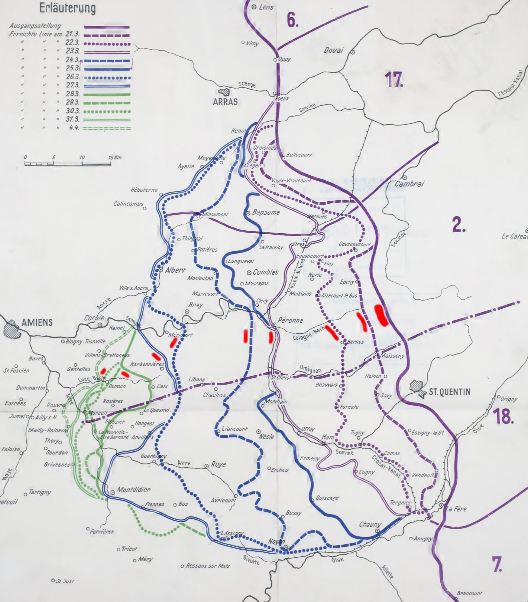 German situation map of the Spring Offensive, covering 21 March 1918 to 4 April 1918. The position of the British 66th (2nd East Lancashire) Division has been marked in red.